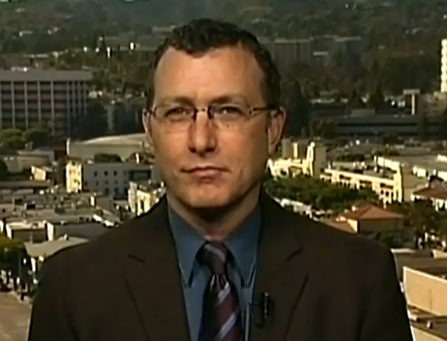 Brad Friedman, The Brad Blog joins Thom Hartmann. As the election rigging voter purge continues in Florida - new information is out revealing the truth behind Florida's lawsuit against the federal government. Is the DHS really refusing to give Florida access to a federal database - or is that just a lie being told to the mainstream media by Governor Scott for politcal posturing?